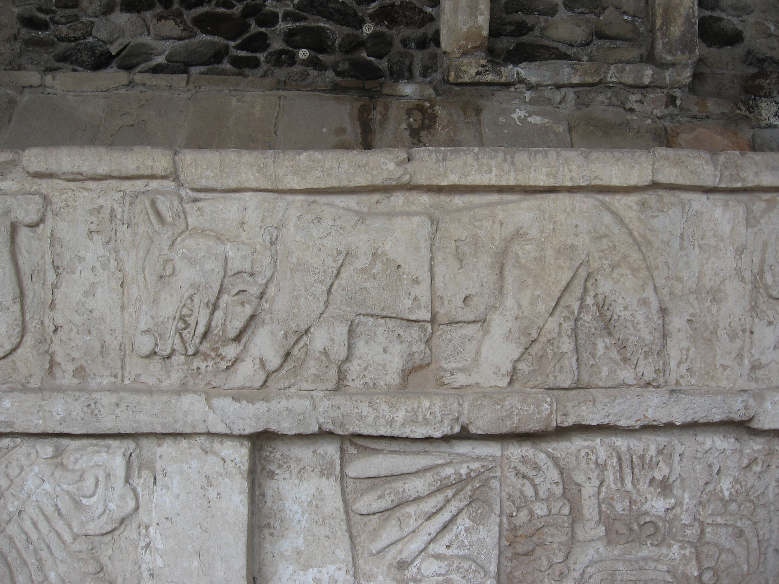 Toltec pictograph coyote, Tula Hidalgo